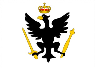 Flag of Kingdom of Prussia 1801